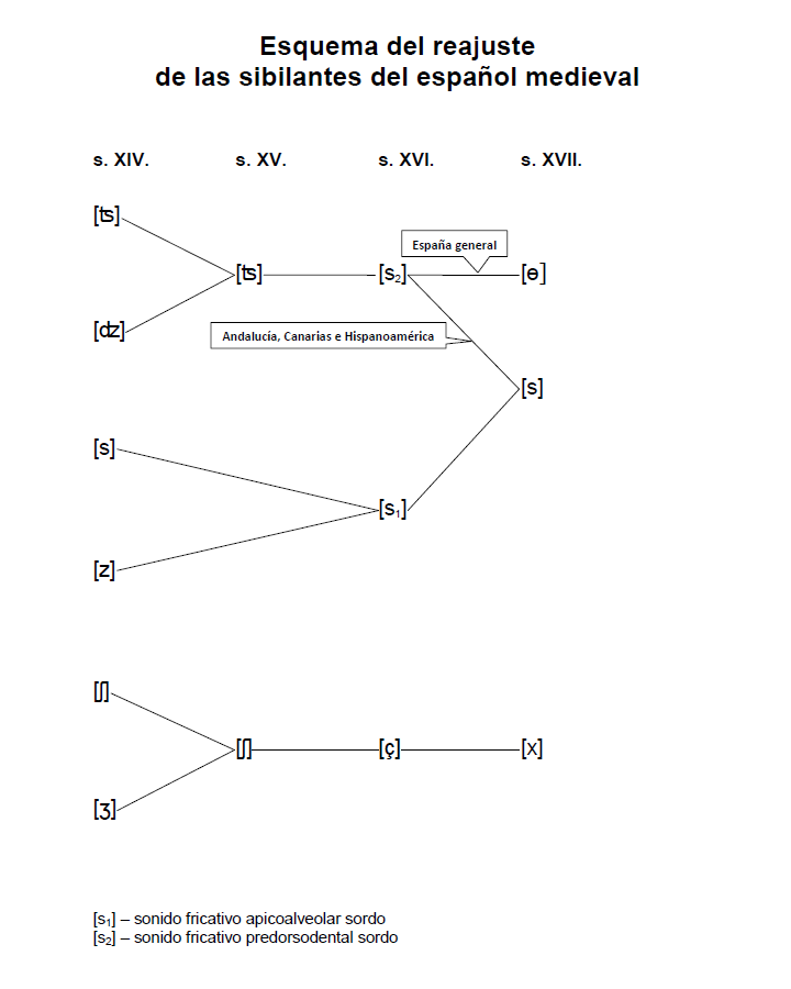 Scheme of Medieval Spanish consonant shift